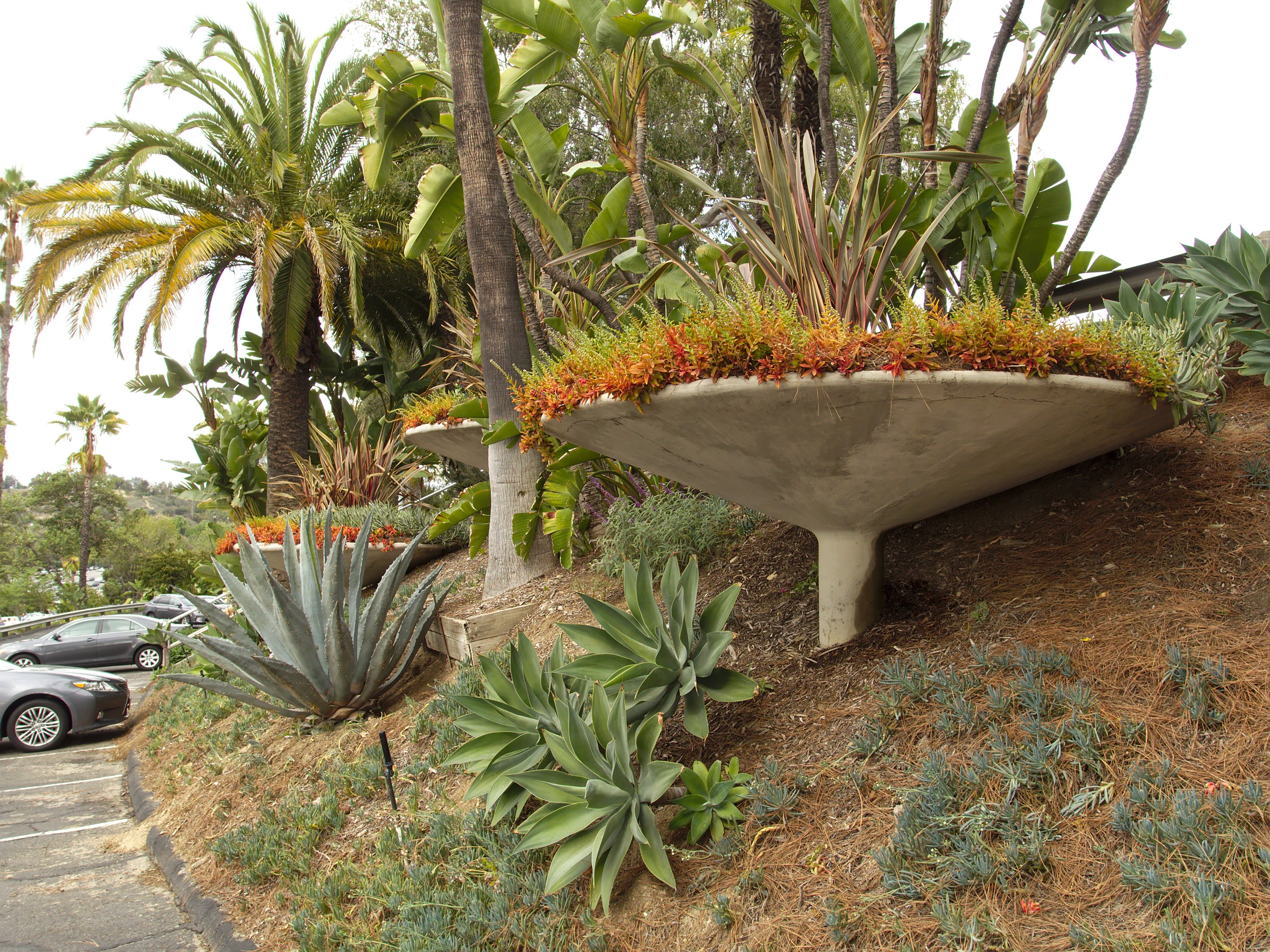 Planters at Dodger Stadium.